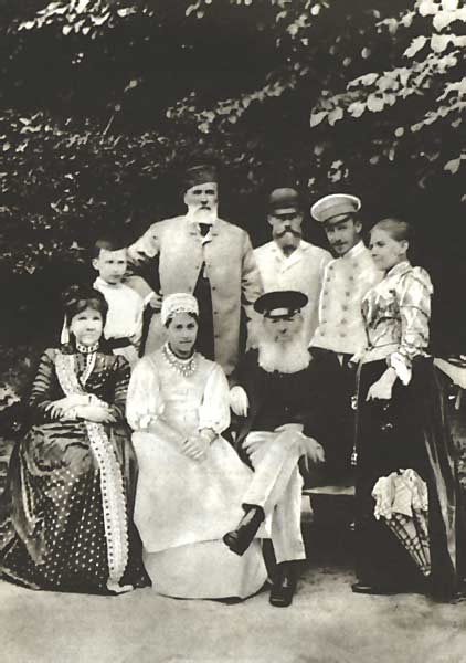 Afanasy Fet and Yakov Polonsky with their wives and children, 1890 Семья Я.П. Полонского в гостях у А.А. Фета в Воробьевке. 1890 г.